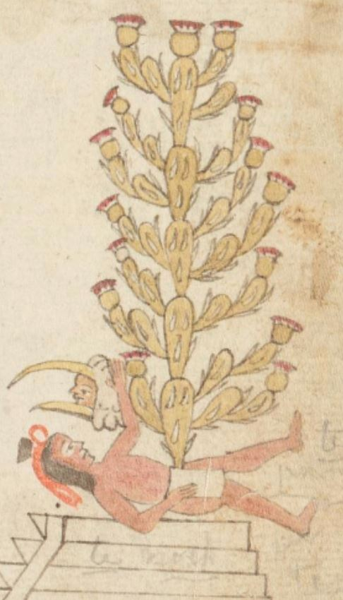 Fundation of Tenochtitlan Codex Azcatitlan f.18 Copil and Huitzilopochtli.